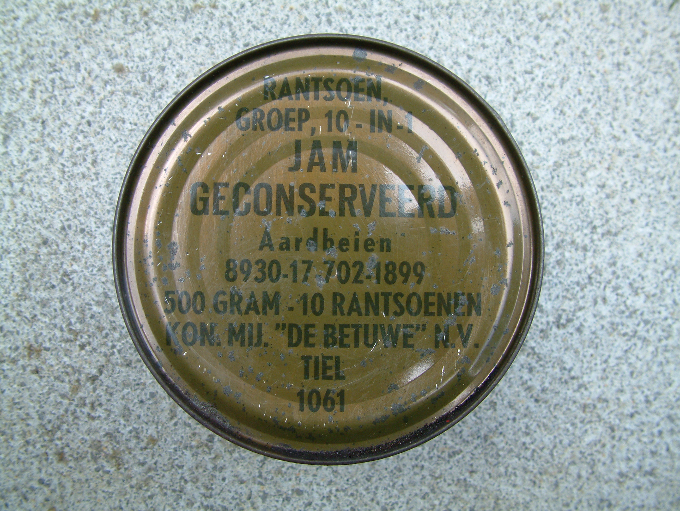 10-in-1 Emergercy package Dutch army about 1961